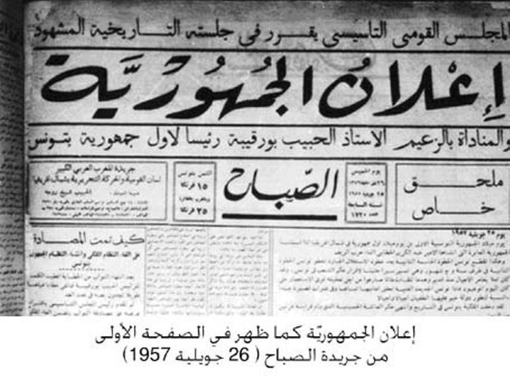 Tunisan__Newspaper_Assabah_-_Proclamation_of_the_republic